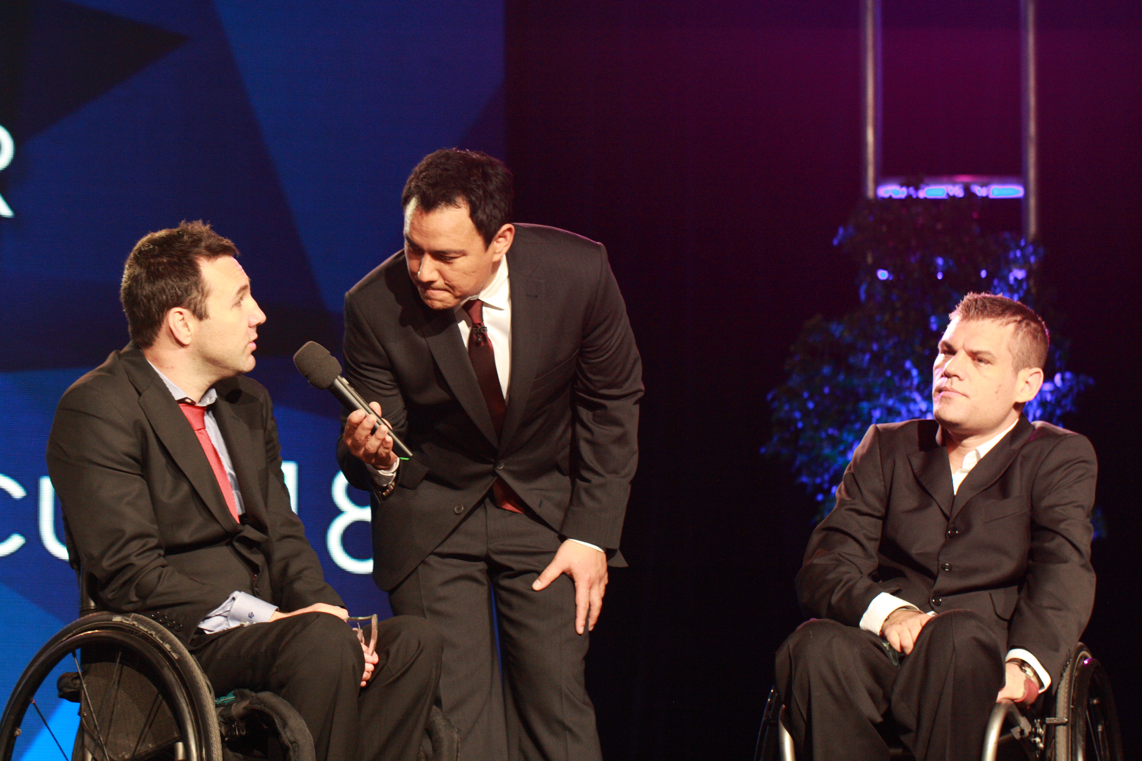 Australian Paralympian of the Year 2012 ceremony at the Hordern Pavilion, Sydney, Australia.